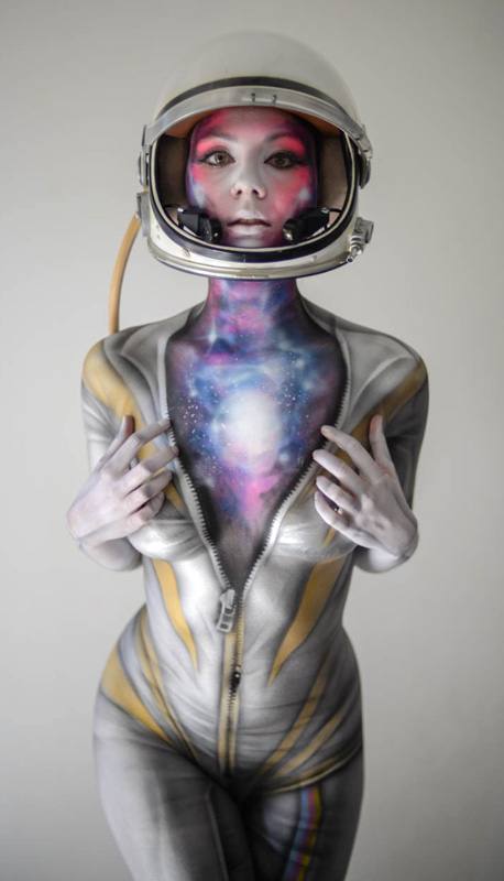 This is body painting artwork by Paul Roustan